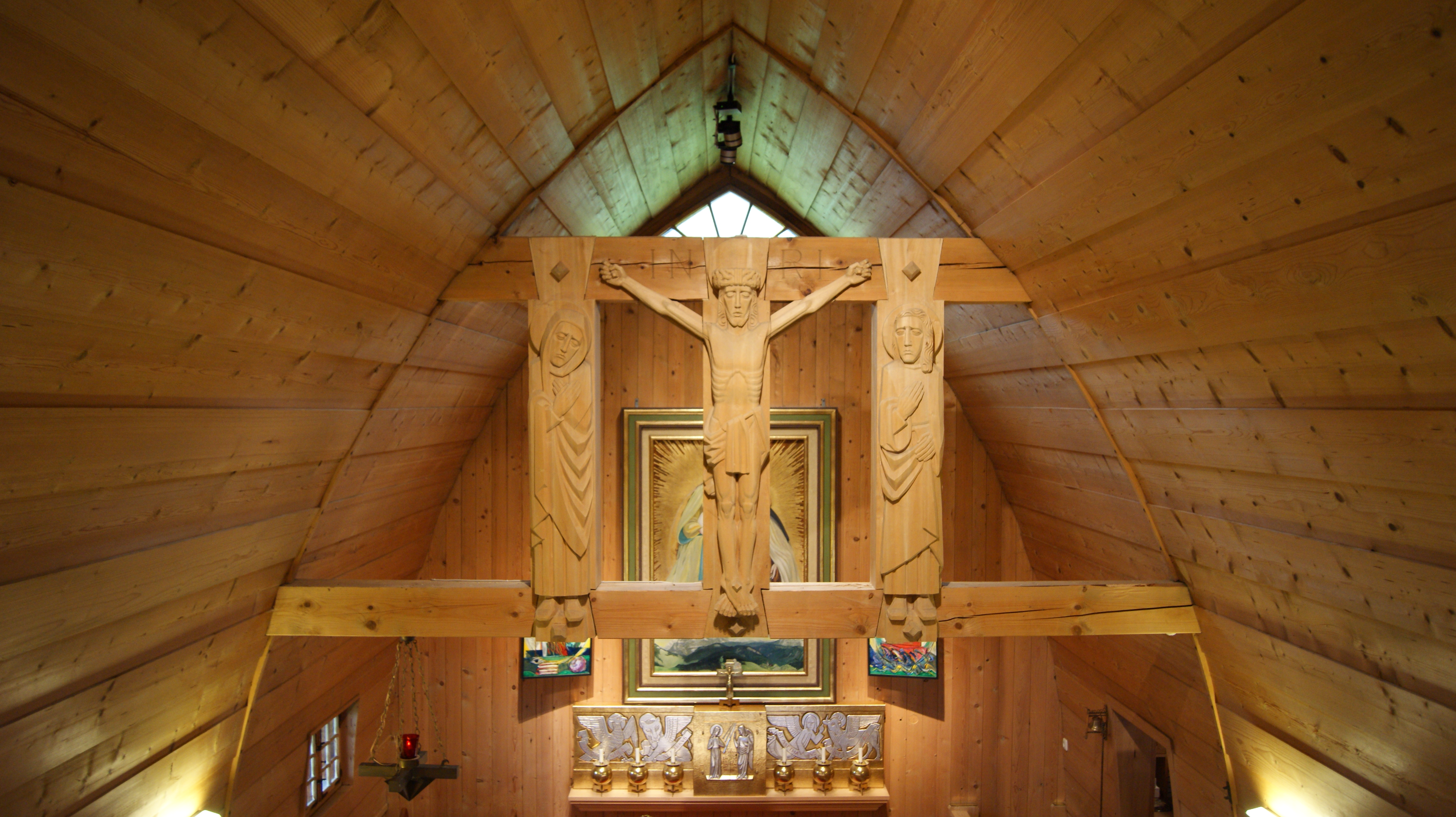 Chapel hl. Theresia in Ratzen in Schwarzenberg, Vorarlberg, Austria. Built in 1932 according to the plans of the architect F. Fuchsberger from Munich. Inaugurated on 31 July 1932 by Bishop S. Waitz. Crucifixion group of Kaspar Albrecht (1889-1970) from Au-Rehmen.